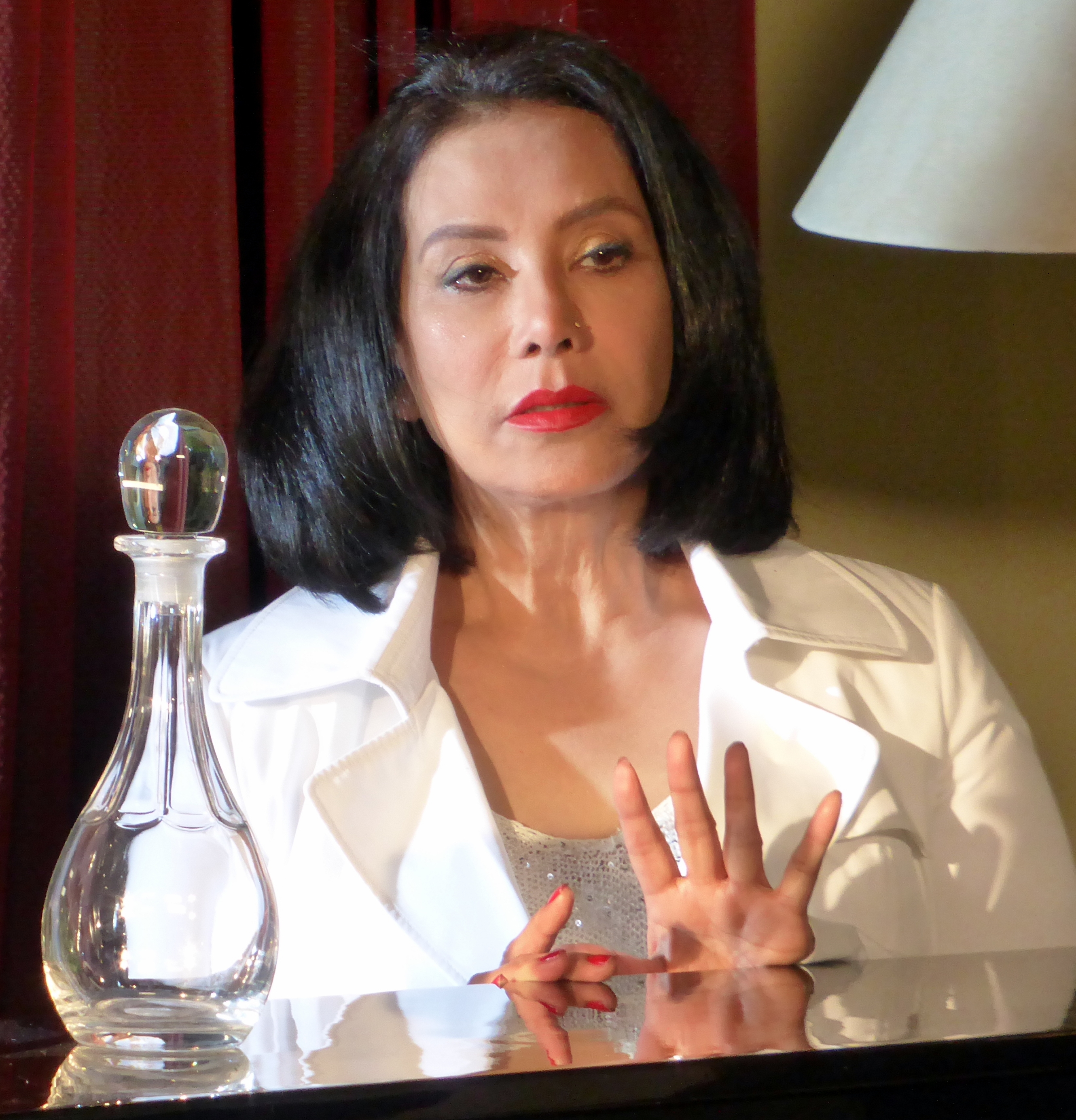 Director: Farouq Mengal